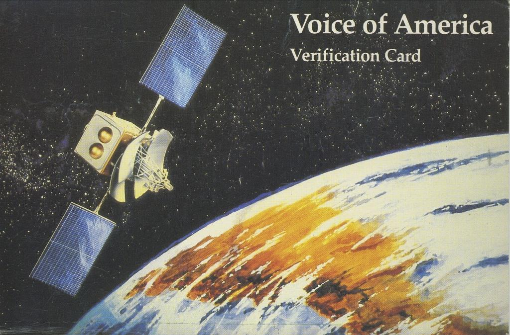 Verification Card (QSL) send by the Voice of America in 1979